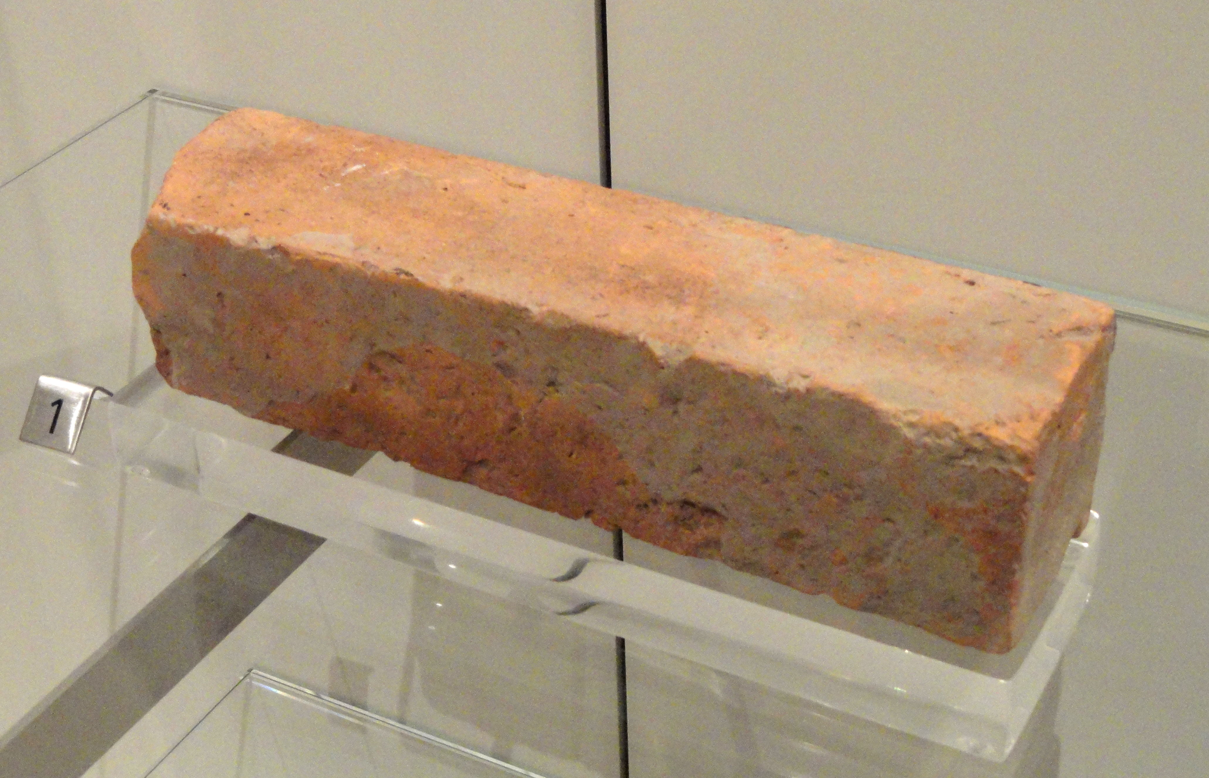 Exhibit in the Royal Ontario Museum, Toronto, Ontario, Canada. This exhibit is old enough so that it is in the public domain, and photography was permitted in the museum. I took this photograph and release it into the public domain.